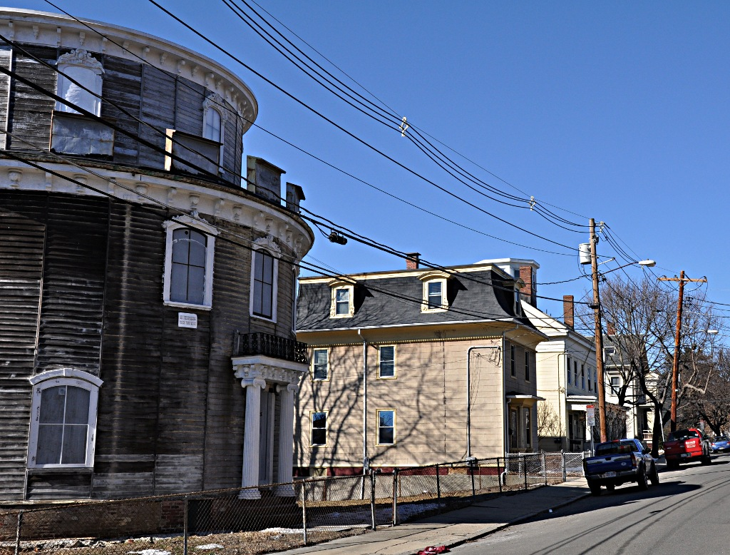 A photograph of Atherton Street, part of the Spring Hill Historic District in Somerville, Massachusetts. Somerville's Round House is visible to the near left.